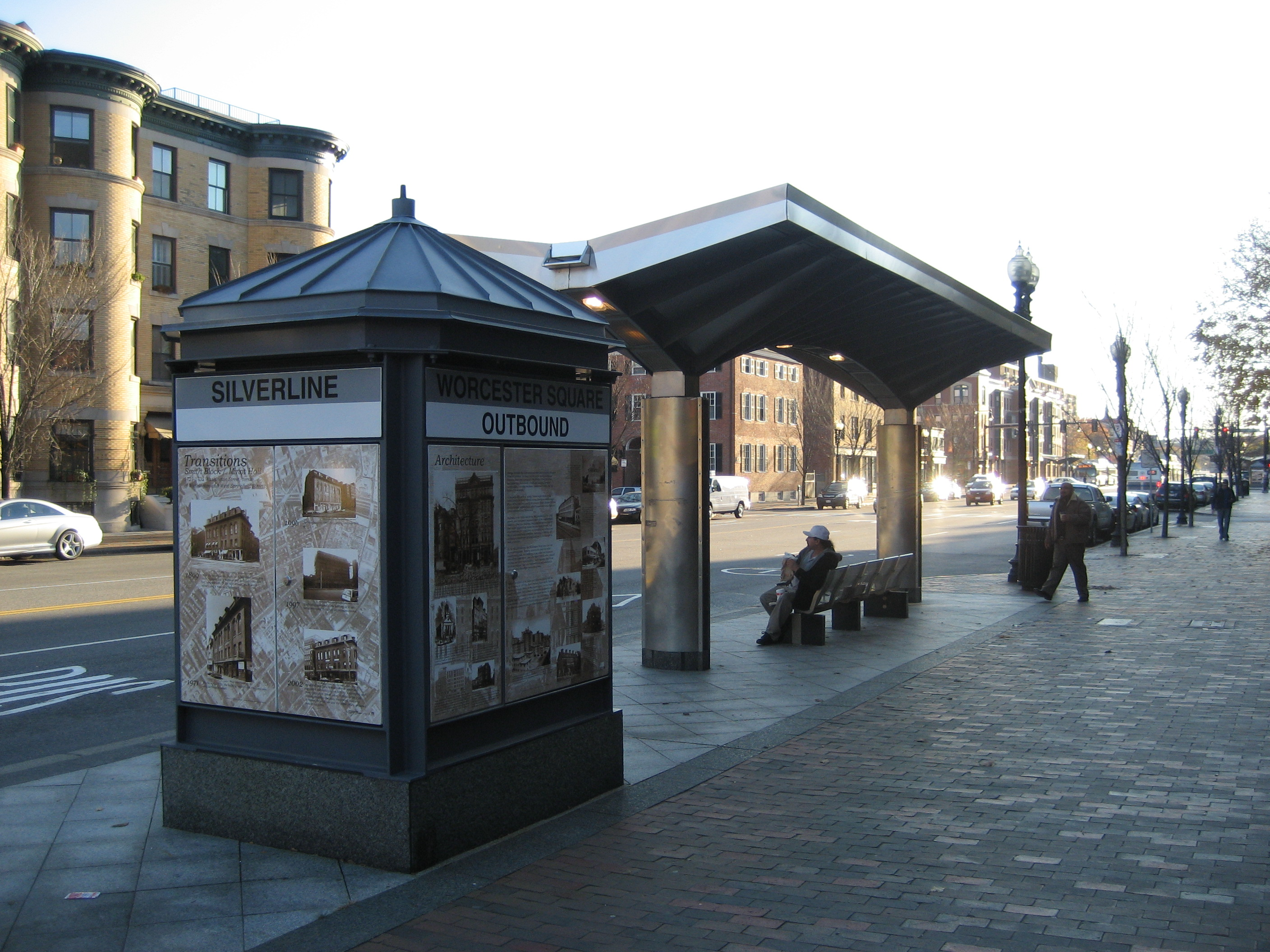 Worcester Square station outbound platform on the MBTA Silver Line.